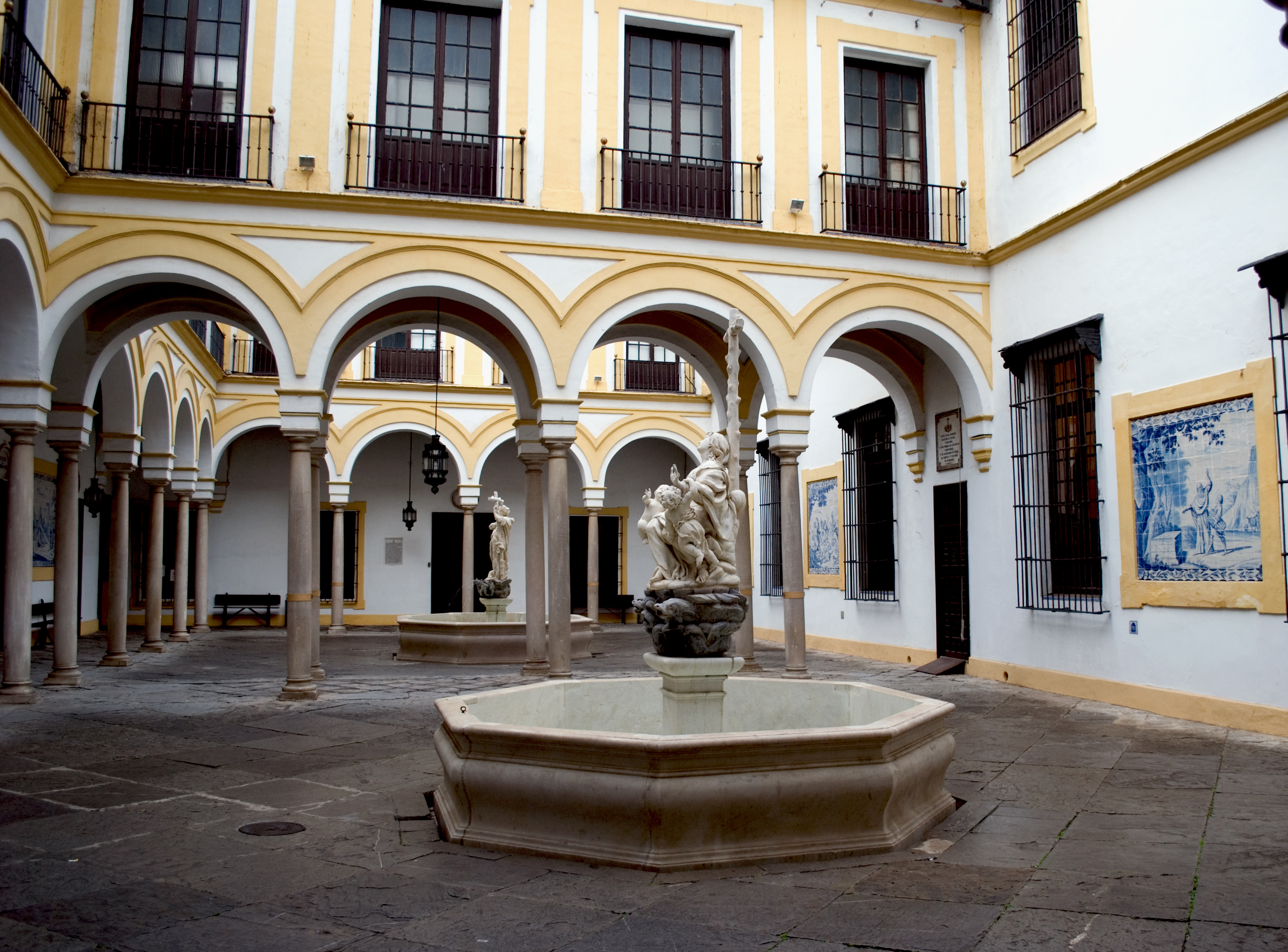 Yard of the "Hospital of Caridad", Seville